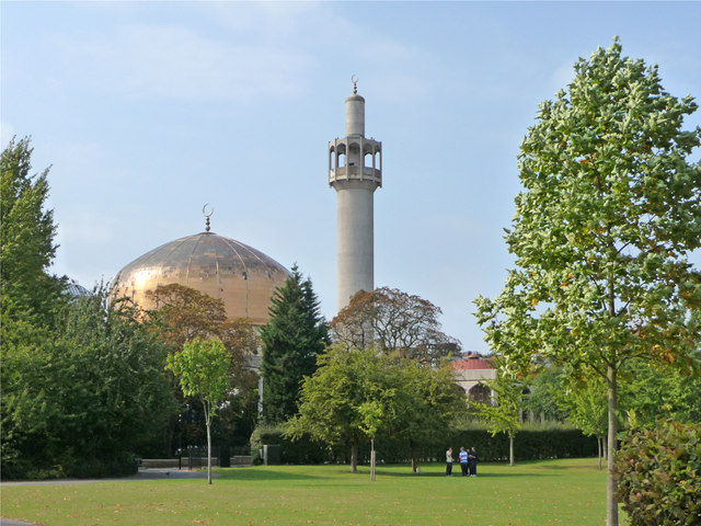 Regent's Park with Mosque in background The copper dome shines brightly in the early afternoon sunshine.